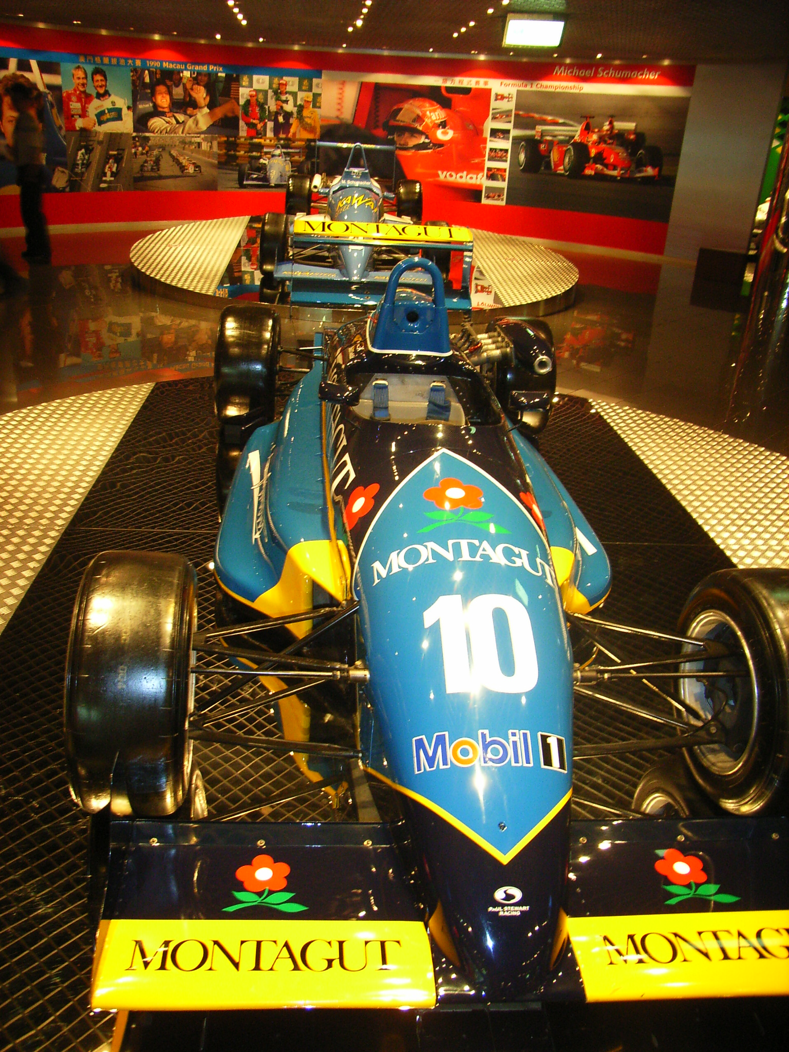 The Grad Prix Museum in Macau 澳門大賽車博物館 在 新口岸區 高美士街